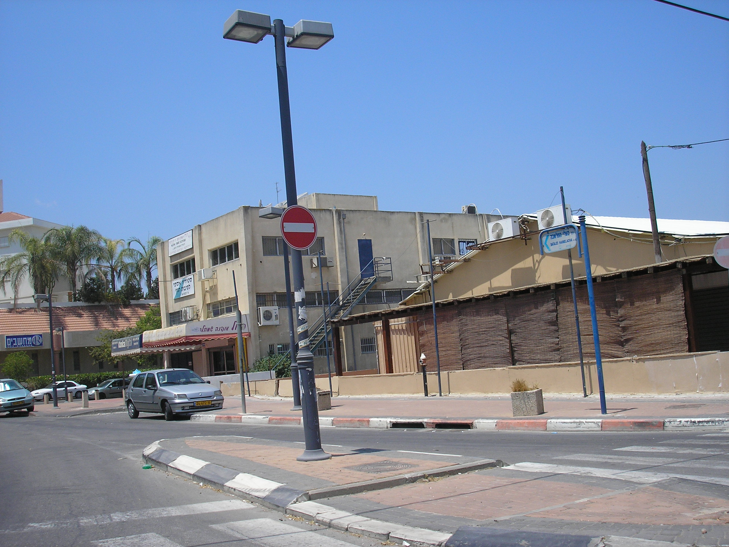 Street in Gedera.